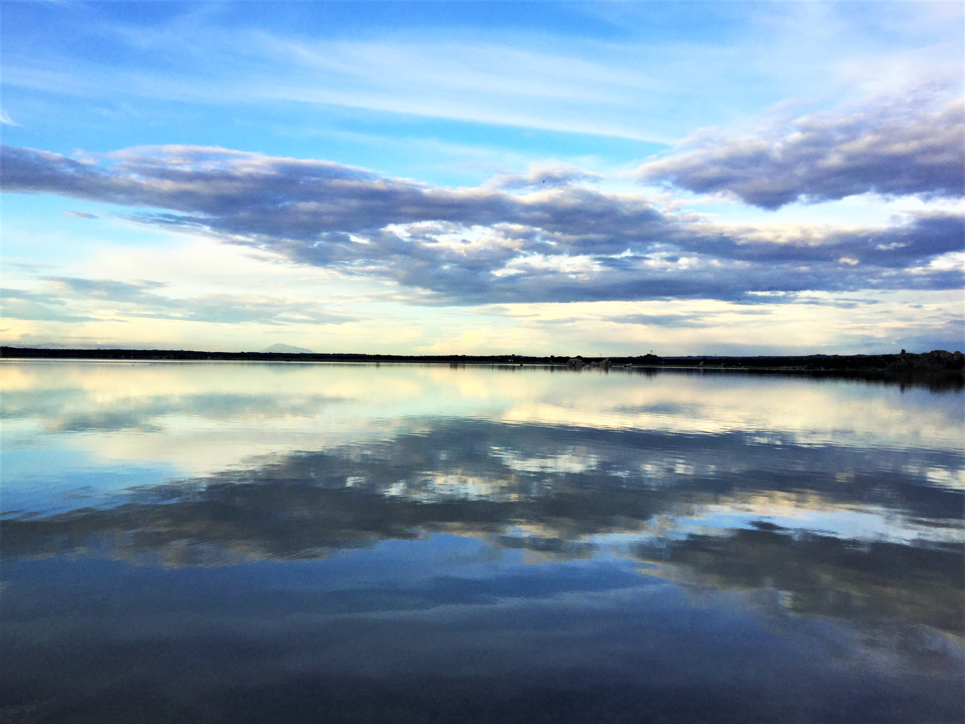 The lake Singidani in Singida region, Tanzania. The photo was taken by Prof. Chen Hualin.